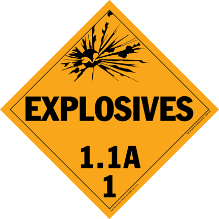 label for dangerous goods, class 1